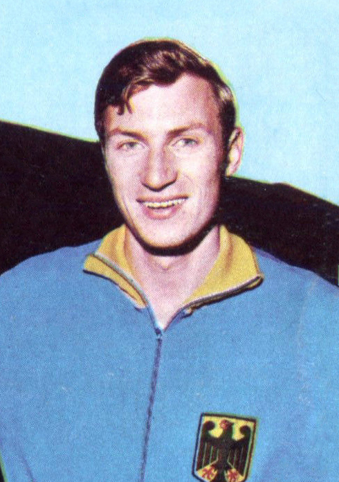 CAMPIONI DELLO SPORT 1969/70-n. 37 - TUMMLER (GER) -ATLETICA L.